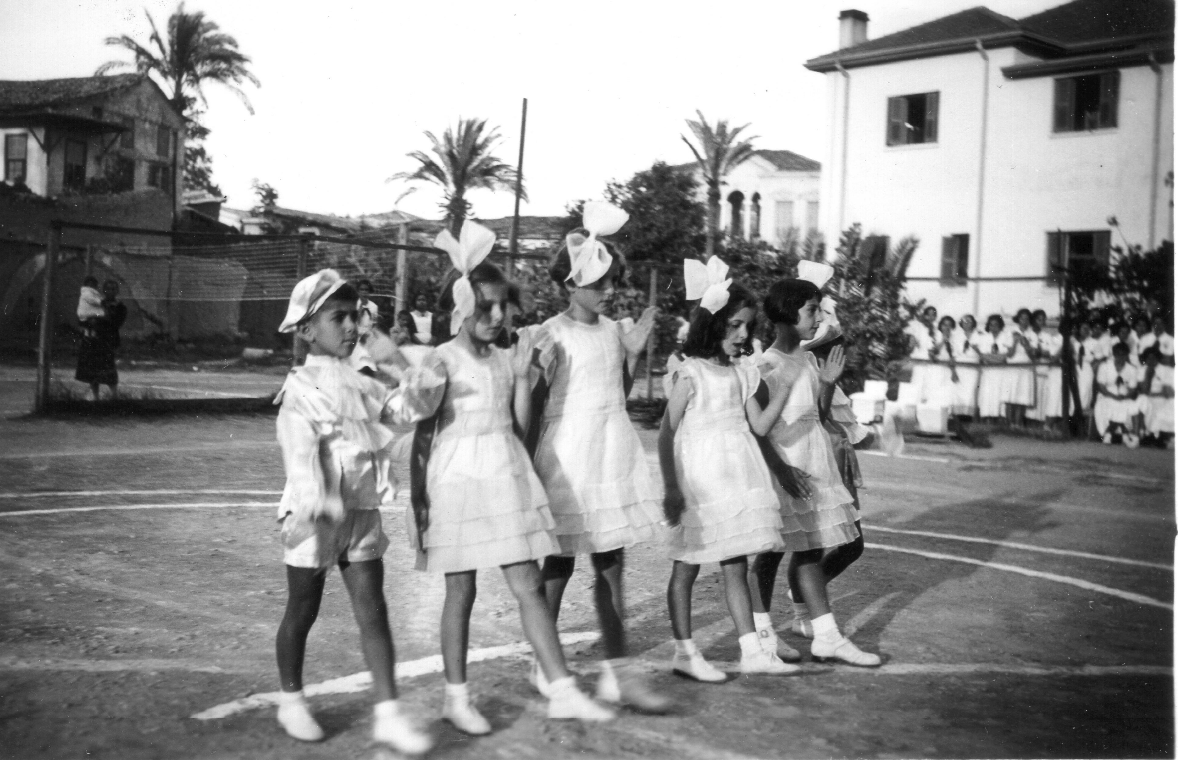 Boys and girls of the primary school of the American Academy Nicosia (Cyprus) perform during Mayday celebrations 1935.